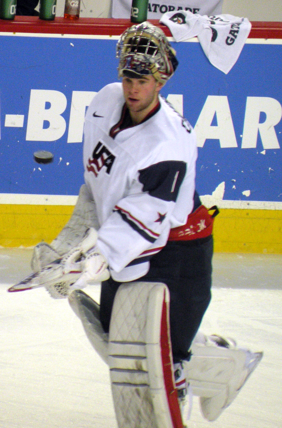 American goaltender Jack Campbell prior to a game against Team Switzerland at the 2012 World Junior Hockey Championships in Calgary, Alberta, Canada.